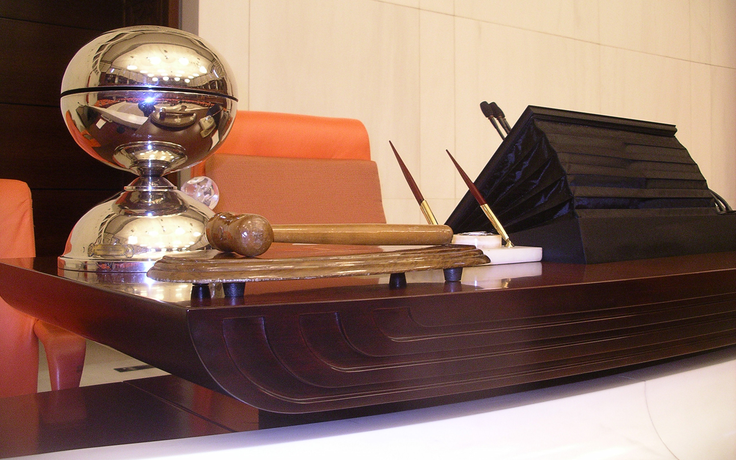 Close up on the speakers chair in the Grand National Assembly of Turkey.